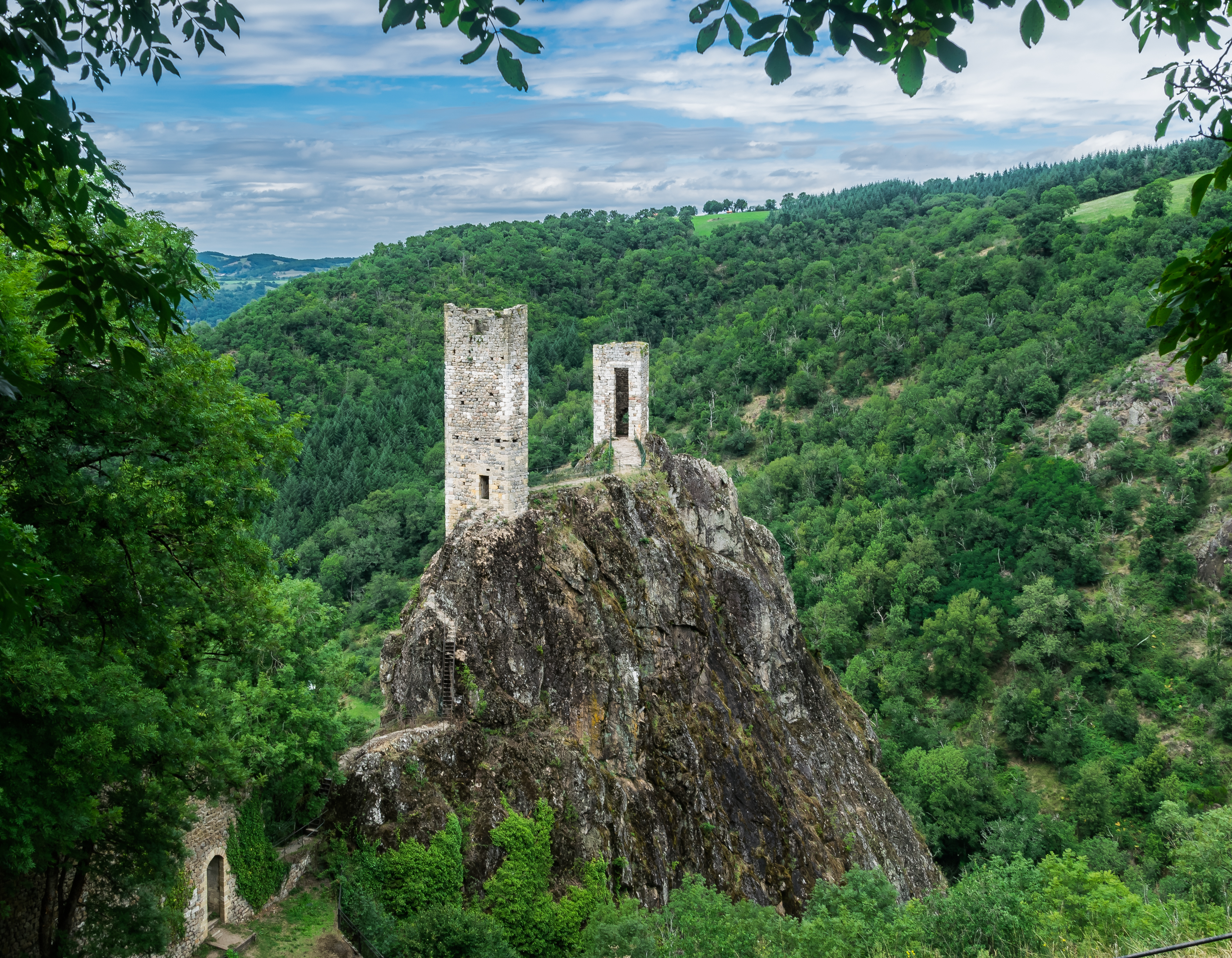 Castle of Peyrusse-le-Roc, Aveyron, France